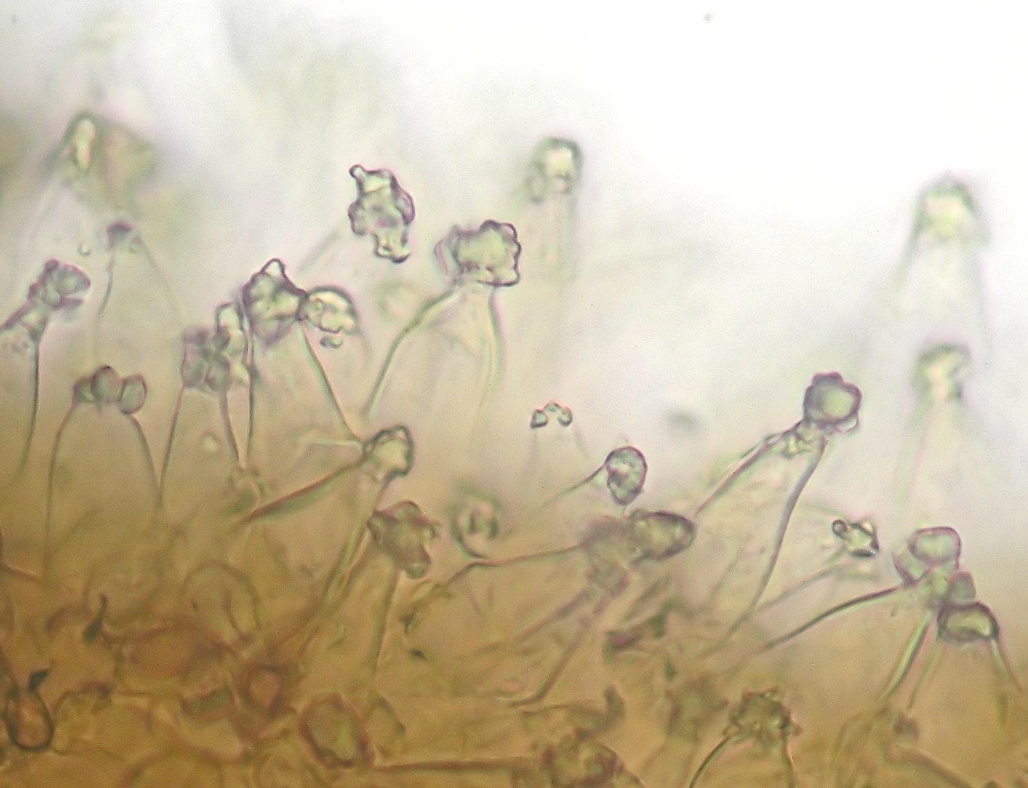 Metuloid hymanial cystidia